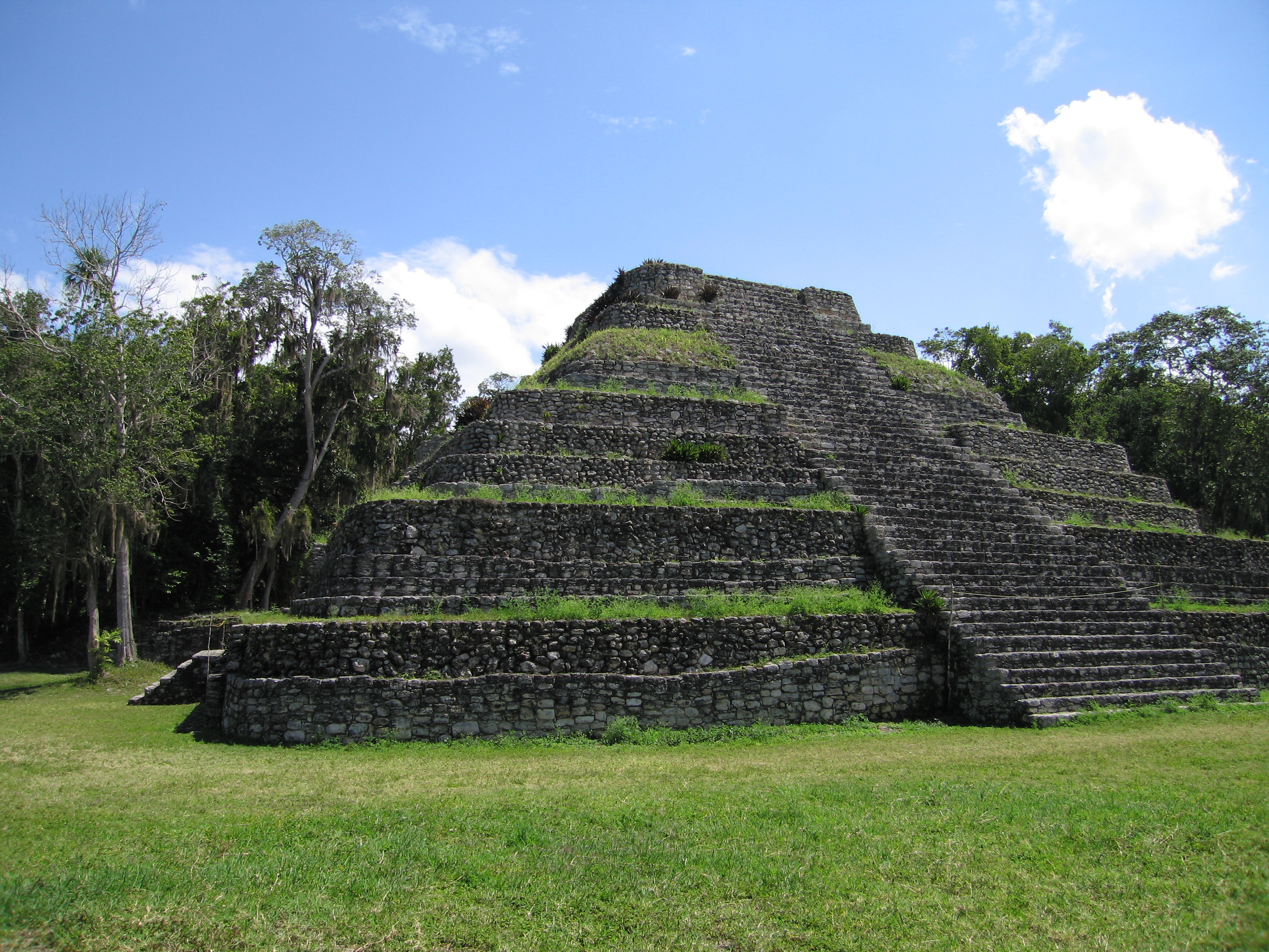 Pyramid in Chacchoben, a maya site in Quintana Roo